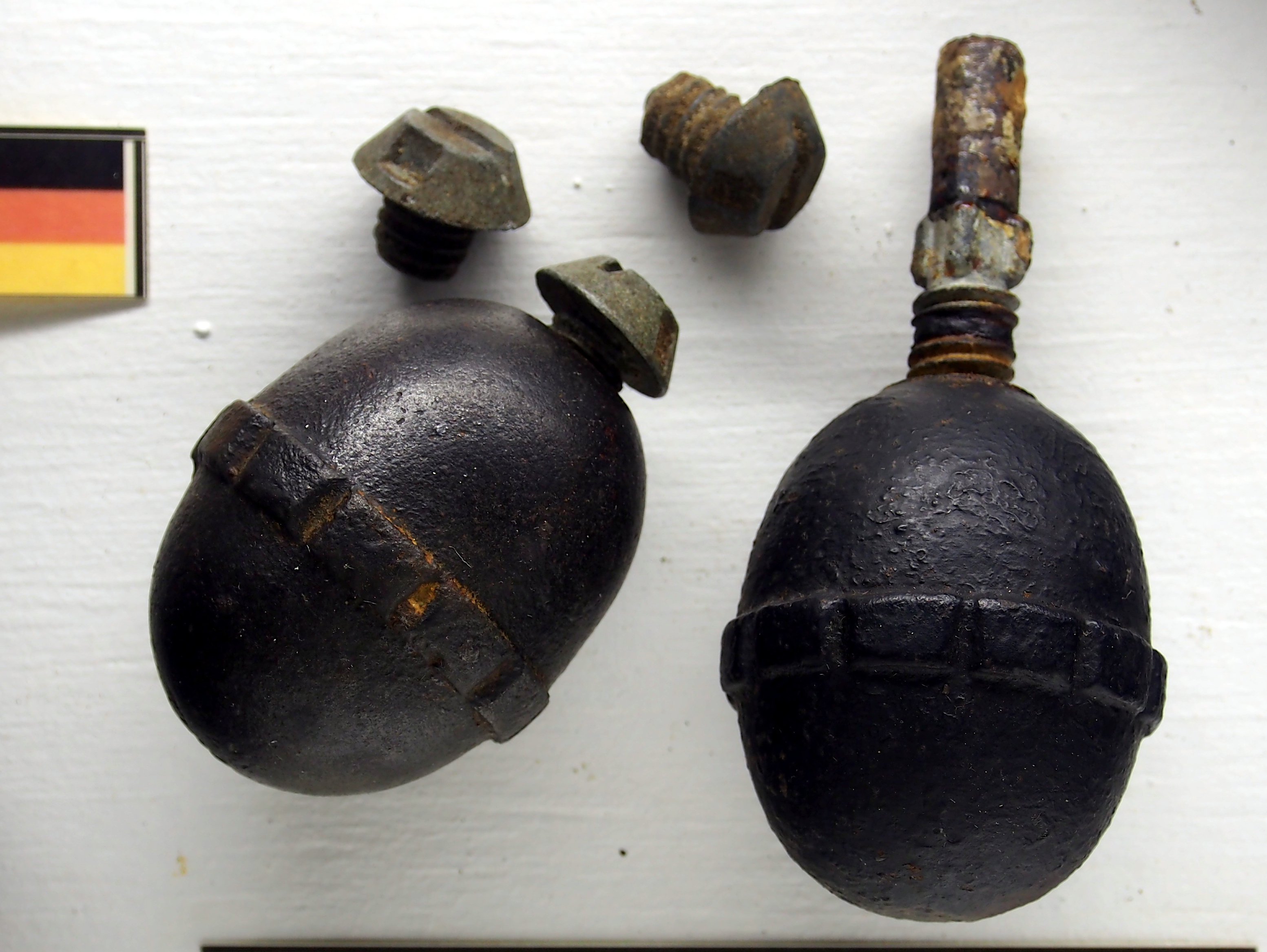 Photographed in the Musée Somme 1916 of Albert (Somme), France.